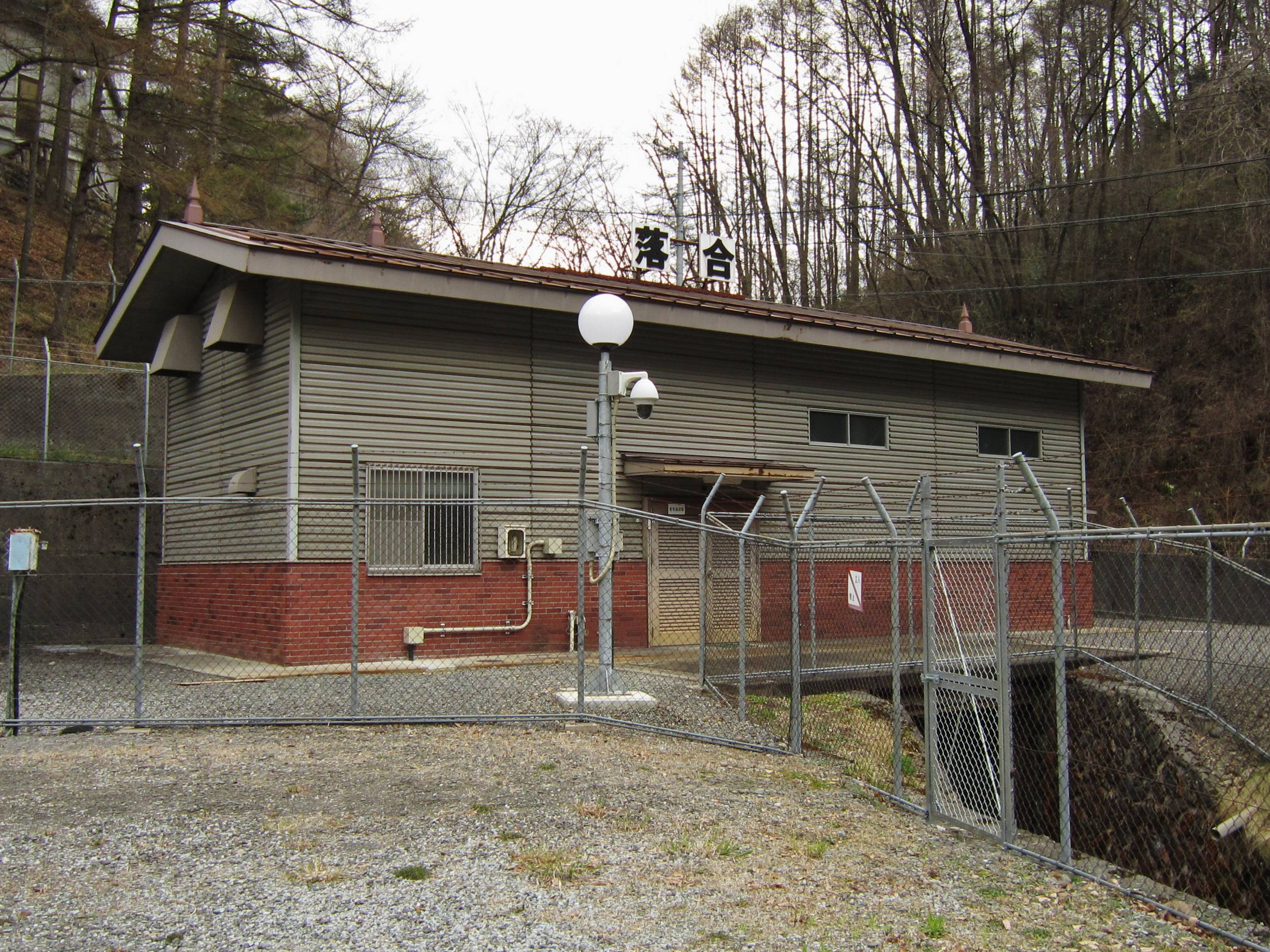 Ochiai power station.